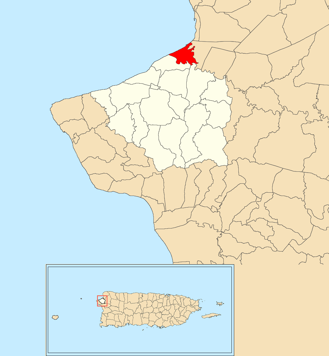 Espinar, Aguada, Puerto Rico locator map